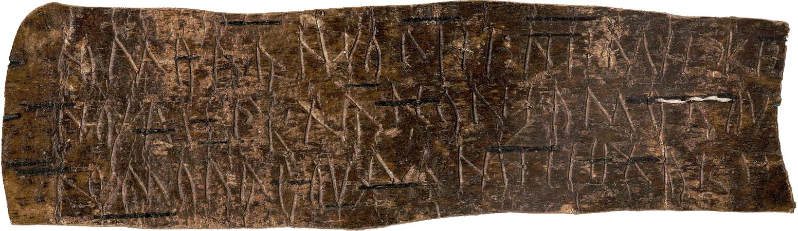 A Birch-bark letter in Karelian/Baltic-Finnic language from the early 13th Century.